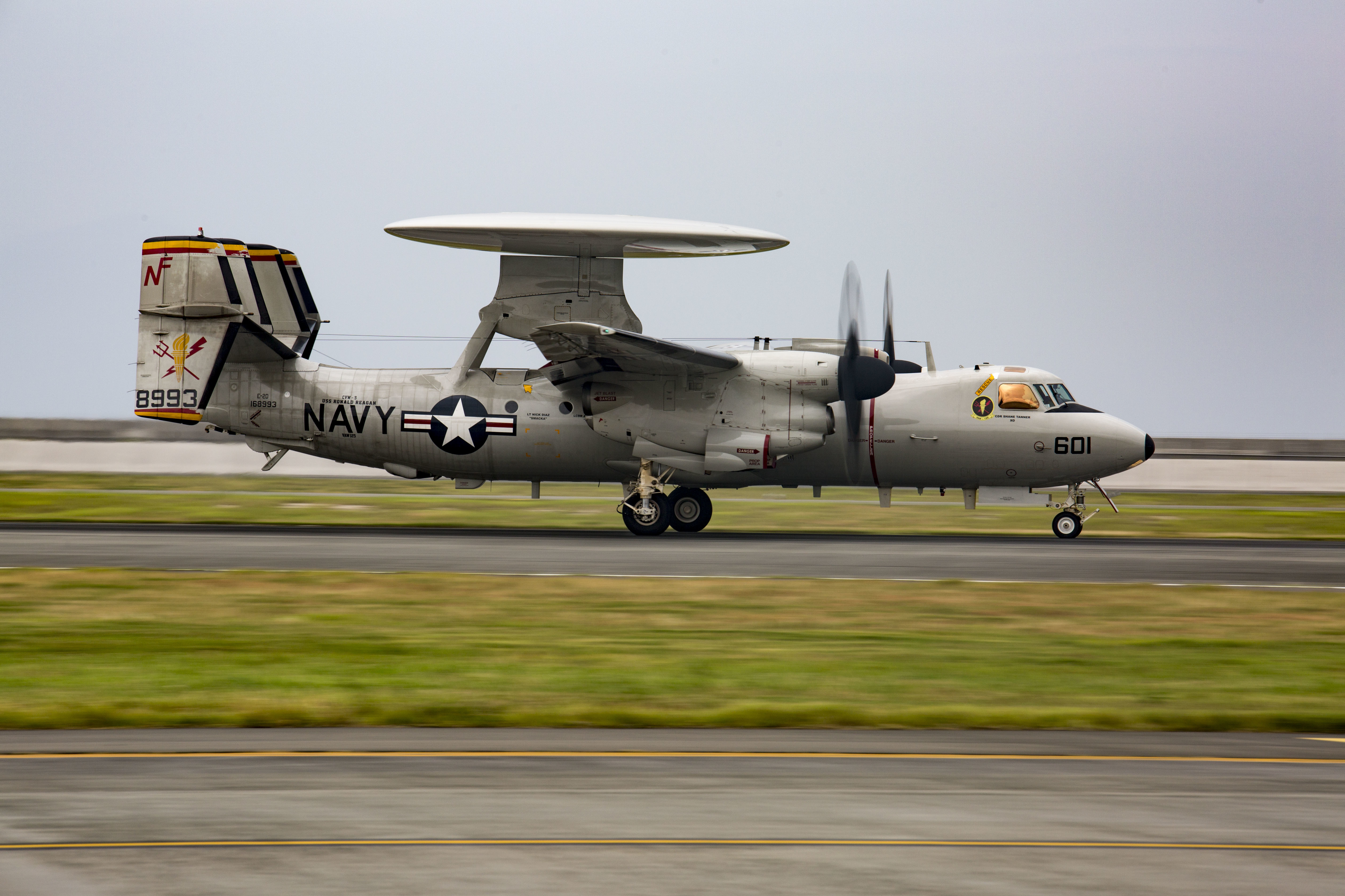 A U.S. Navy Northrop Grumman E-2D Hawkeye (BuNo 168993) assigned to Carrier Airborne Early Warning Squadron 125 (VAW-125) "Tigertails" returns to Marine Corps Air Station Iwakuni, Japan. VAW-125 was assigned to Carrier Air Wing 5 (CVW-5) aboard the aircraft carrier USS Ronald Reagan (CVN-76) for a deployment to the Western Pacific from 16 May to 9 August 2017.